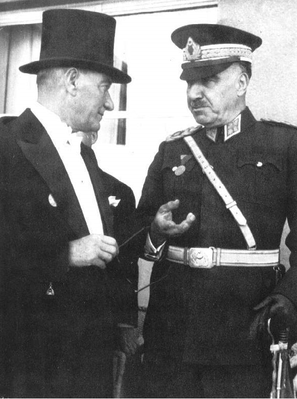 Field-Marshall Fevzi Çakmak and President Kemal Atatürk